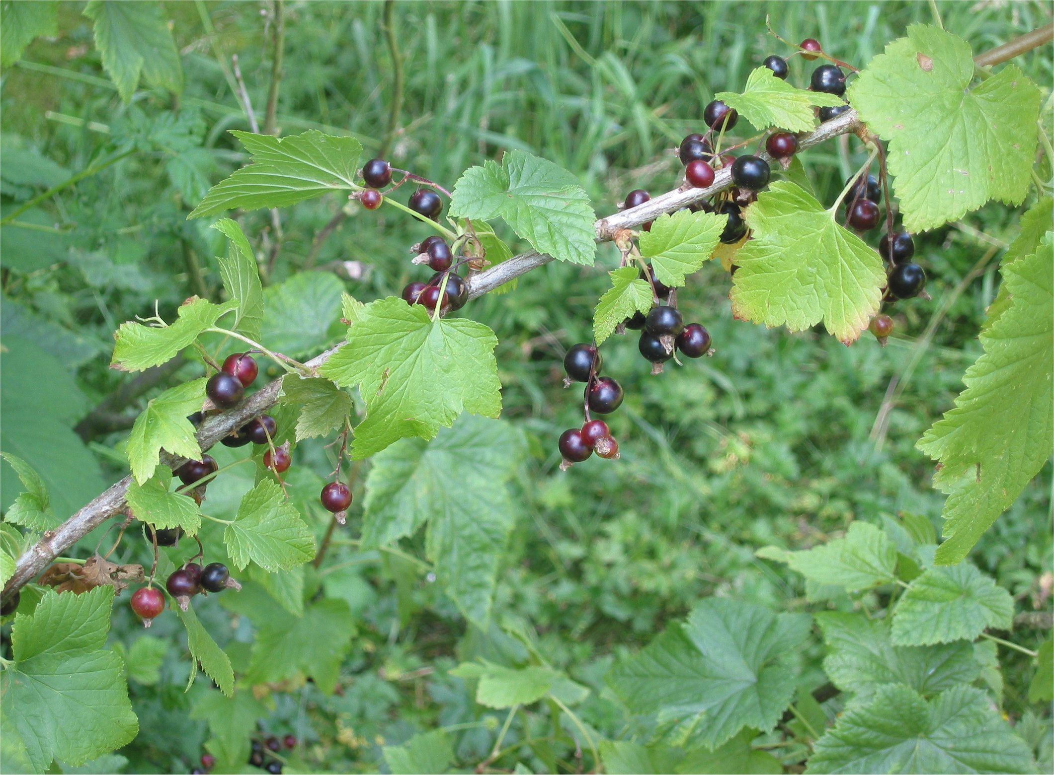 Ribes nigrum